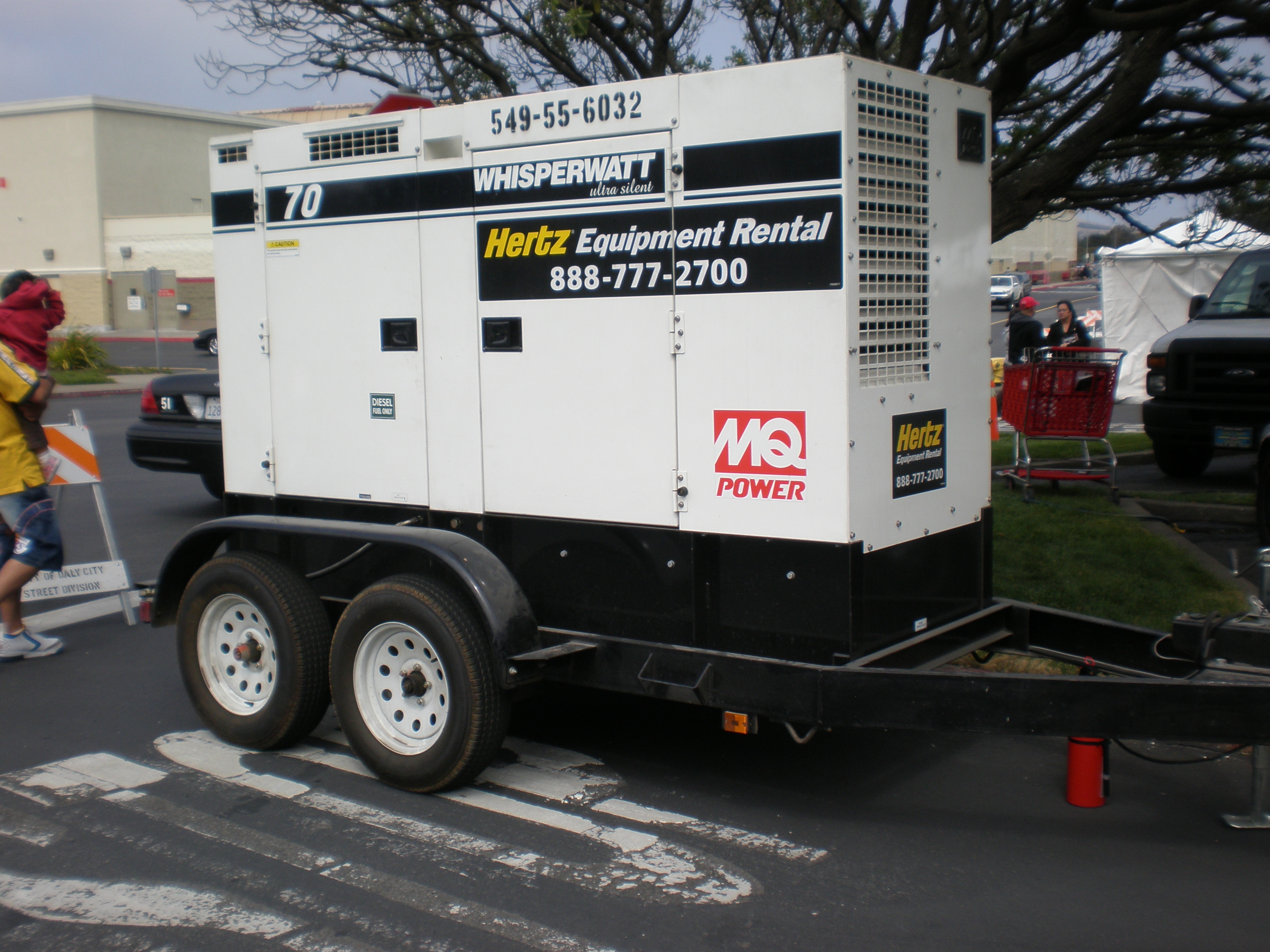 A Whisperwatt 70 engine-generator at Serramonte Center in Daly City, California.